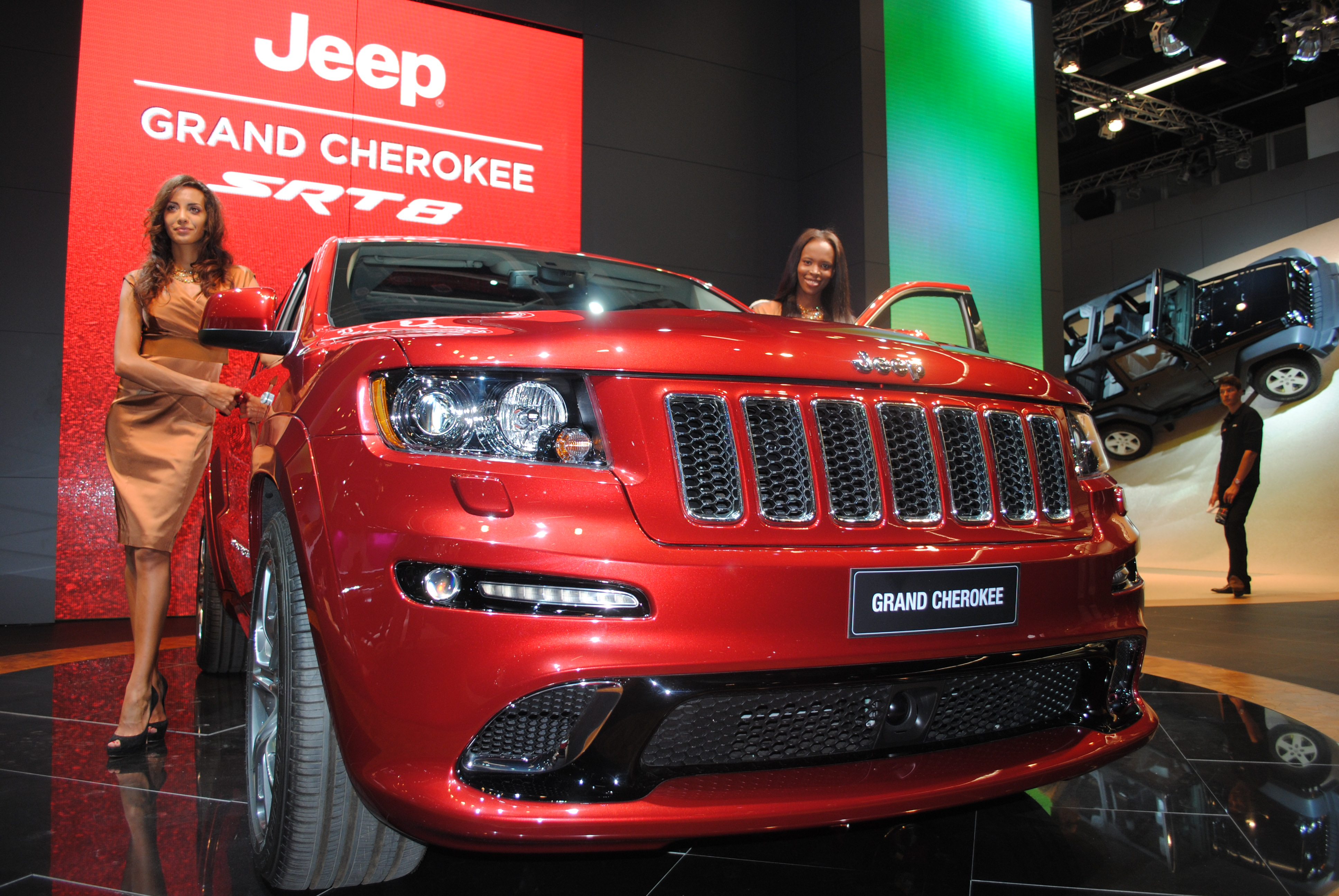 Jeep Grand Cherokee SRT8 More photos and info